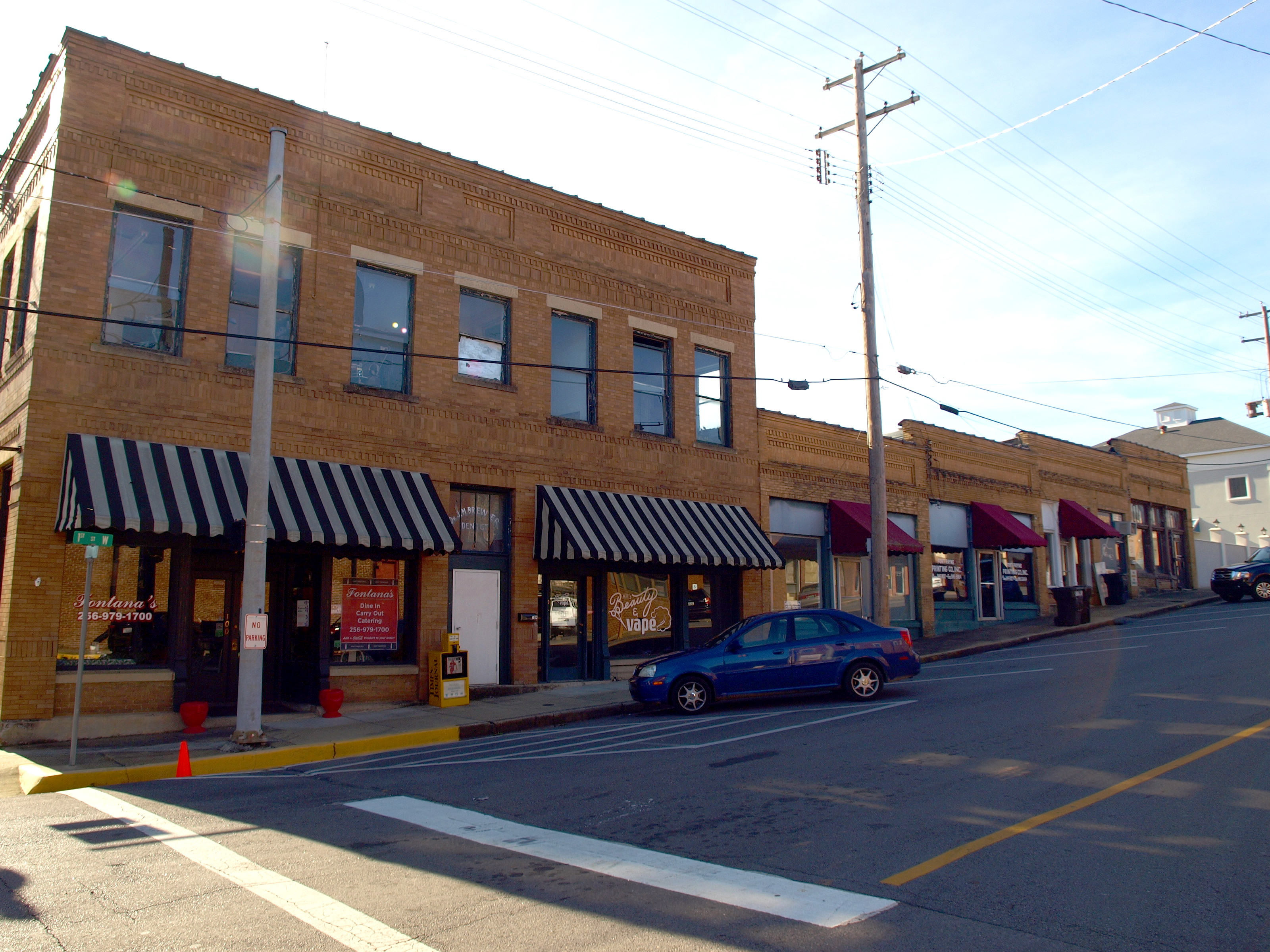 100-112 1st Street SW in Fort Payne, Alabama, part of the Fort Payne Main Street Historic District